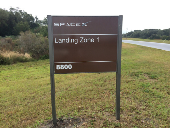 SpaceX's Landing Zone 1 sign at the old Cape Canaveral Launch Complex 13 site. This was previously referred to as Landing Complex 1.